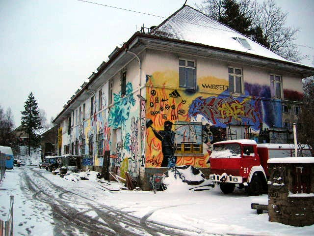 The photo shows a German squat in Karlsruhe called "Ex-Steffi" (de). The picture was taken at 29.12.2005. The building that was squatted since 1990 and has been demolished in April, 2006 by the owner (the city Karlsruhe).